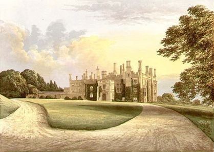 Eggesford House, near Wembworthy, Devon. Antique chromolithograph published by the Rev. Francis Orpen Morris in 1870. Approx 20cm by 14cm.